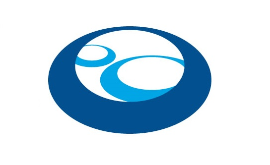 Flag of Shimanto Kochi